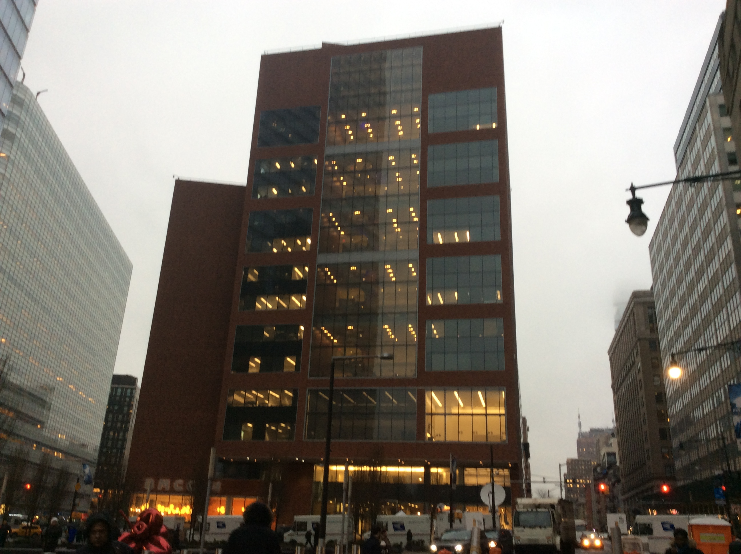 BMCC Murray building in Lower Manhattan